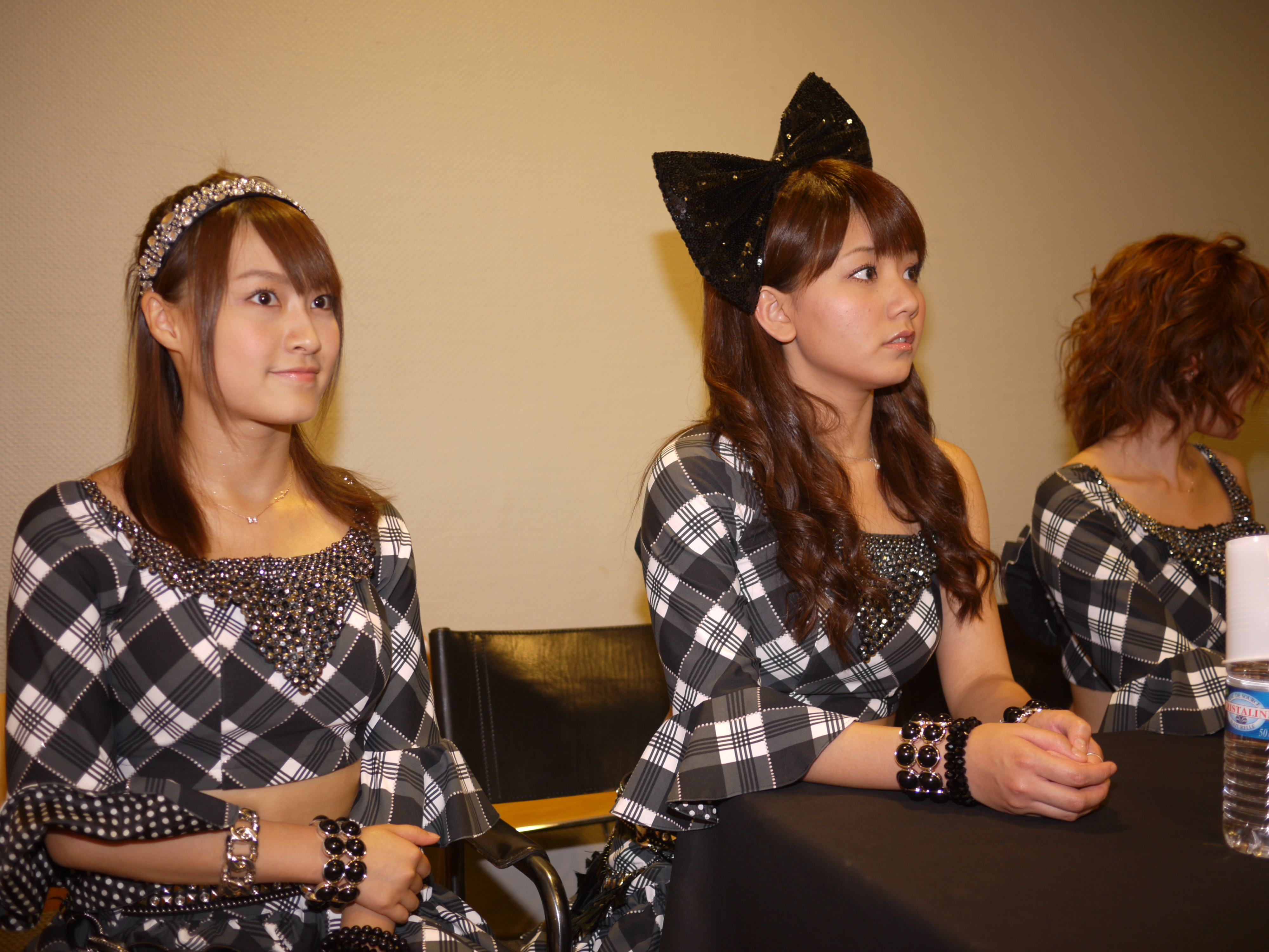 Japan Expo Festival, 11th impact